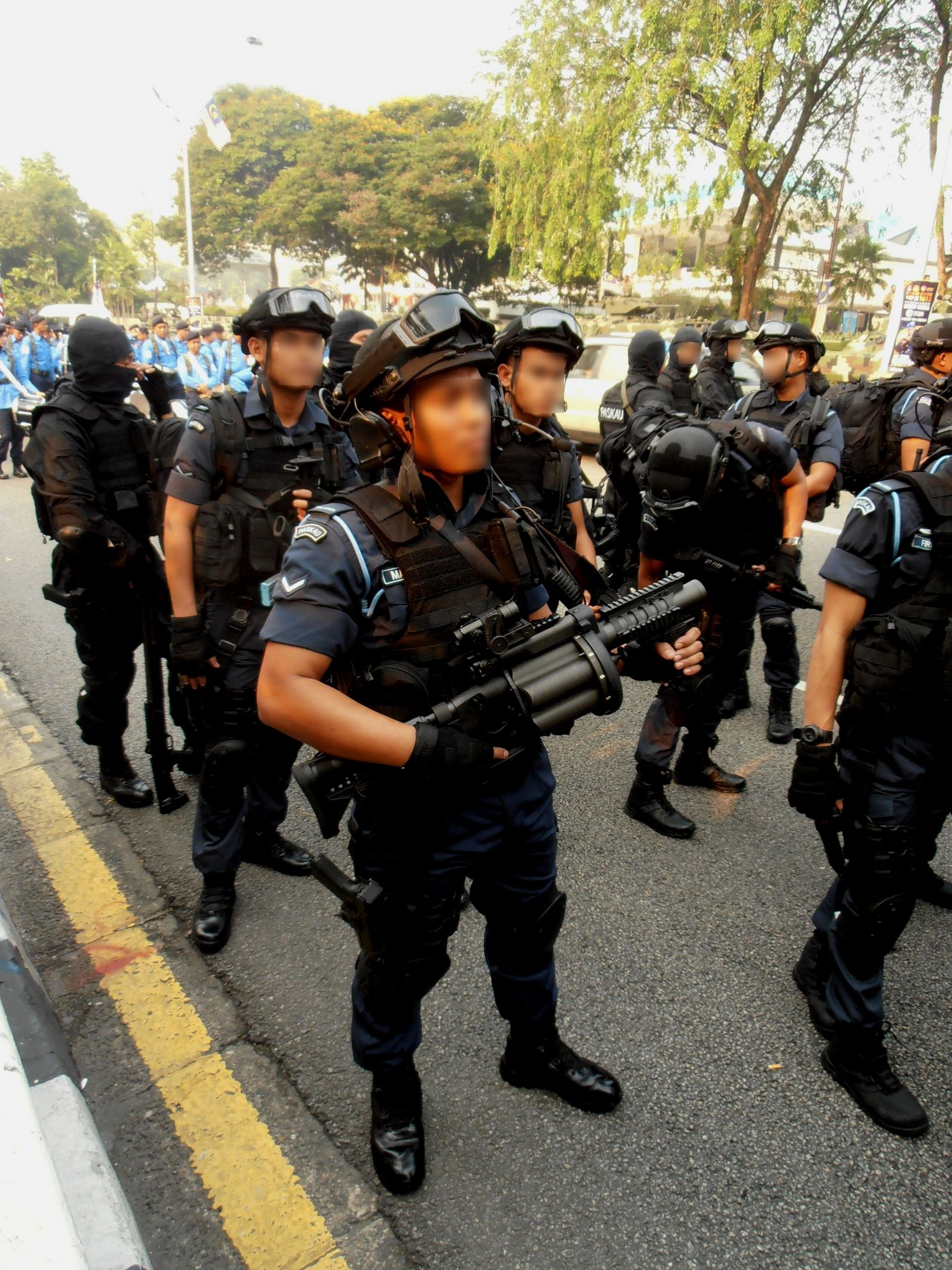 Grenadier of PASKAU, Royal Malaysian Air Force with Milkor M32 MGL grenade launcher fitted with Armson OEG reflex sight on standby during a prepare for the 2015 National Day Parade in Kuala Lumpur.